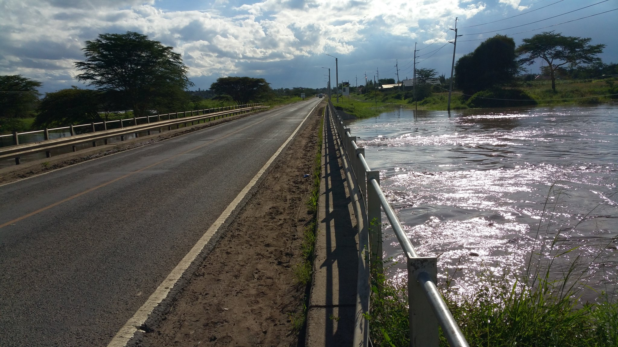 Kamulu-Joska bridge on River Athi